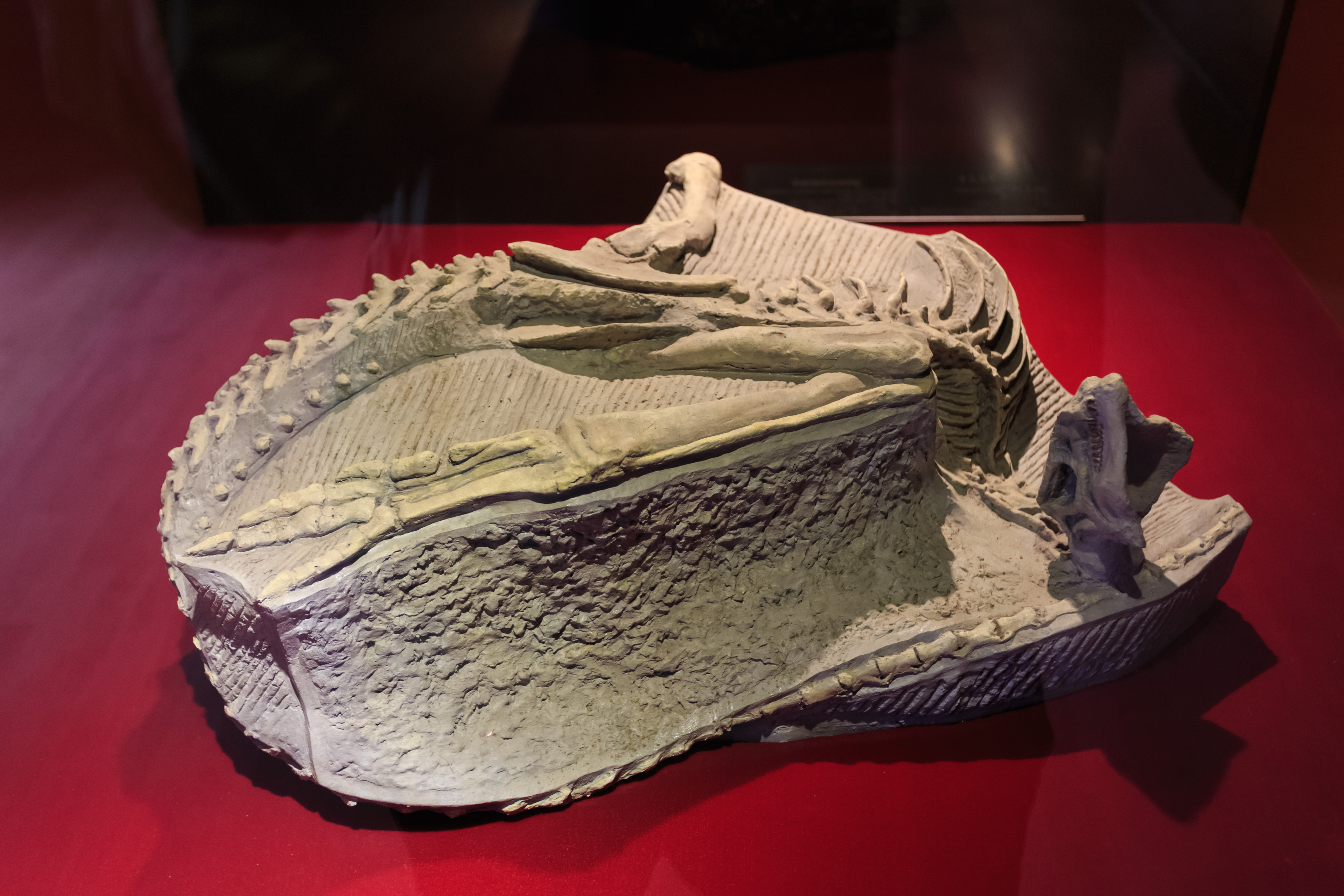 Agilisaurus louderbacki. Symtemtic position: Fabrosauridae, Ornithopoda, Ornithischia. Locality: Dashanpu, Zigong, Sichuan, China. Age: Middle Jurassic (about 160 million years ago). Skeleton of Agilisaurus louderbacki, a small ornithopod dinosaur in its burial condition, includes its well-preserved skull. It is the best-preserved small ornithopod dinosaur so far known in th world and has important significance in studying the early evolution of ornithopod dinosaurs.